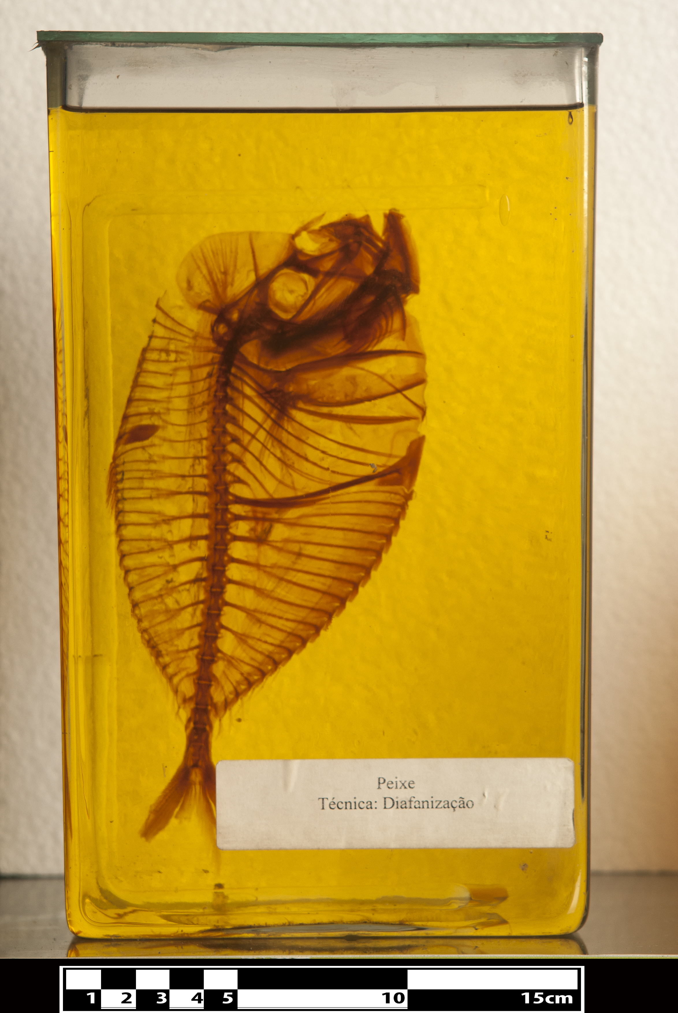 Fish. Osteichthyes Technique of diaphanization – specimen clarified for visualization of anatomical structures on display at the Museum of Veterinary Anatomy FMVZ USP. Spalteholz diaphanization is a tissue clearing technique, described here. This file was published as the result of a partnership between the Museum of Veterinary Anatomy FMVZ USP, the RIDC NeuroMat and the Wikimedia Community User Group Brasil. This GLAM project is reported. Photography: Museum of Veterinary Anatomy FMVZ USP. Author: Wagner Souza e Silva.